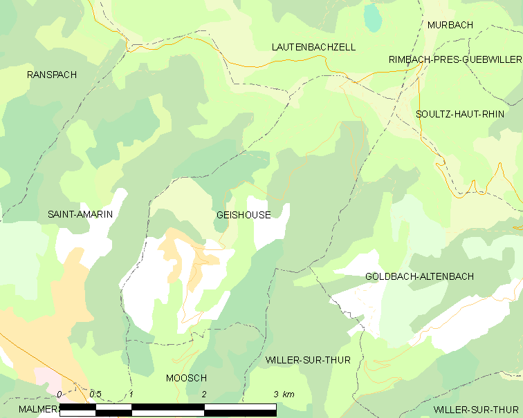 Map of French municipality